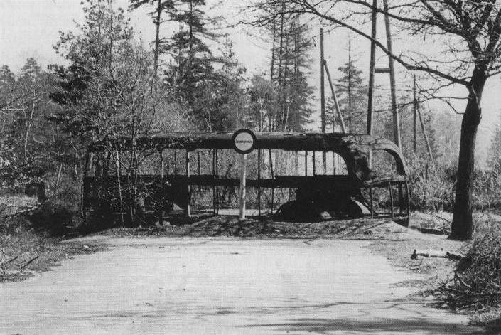 A burned-out bus marks the border between the British and the Soviet occupation zone on the Reichsstraße 1 near Helmstedt in 1945.